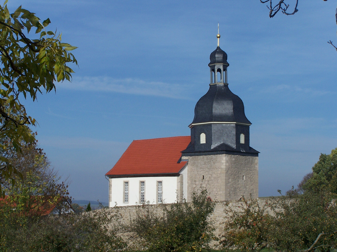 The church in Ettenhausen/Suhl.